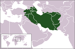 This is a map of the Safavid Empire showing it's greatest extent.